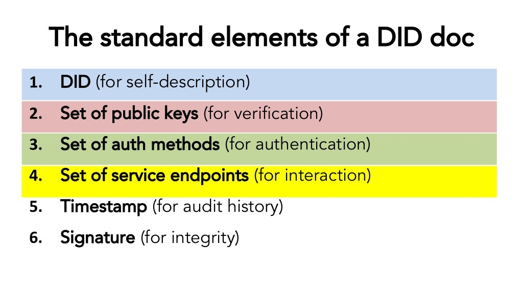 Decentralized identifiers (DIDs). The fundamental building block of selfsovereign identity.